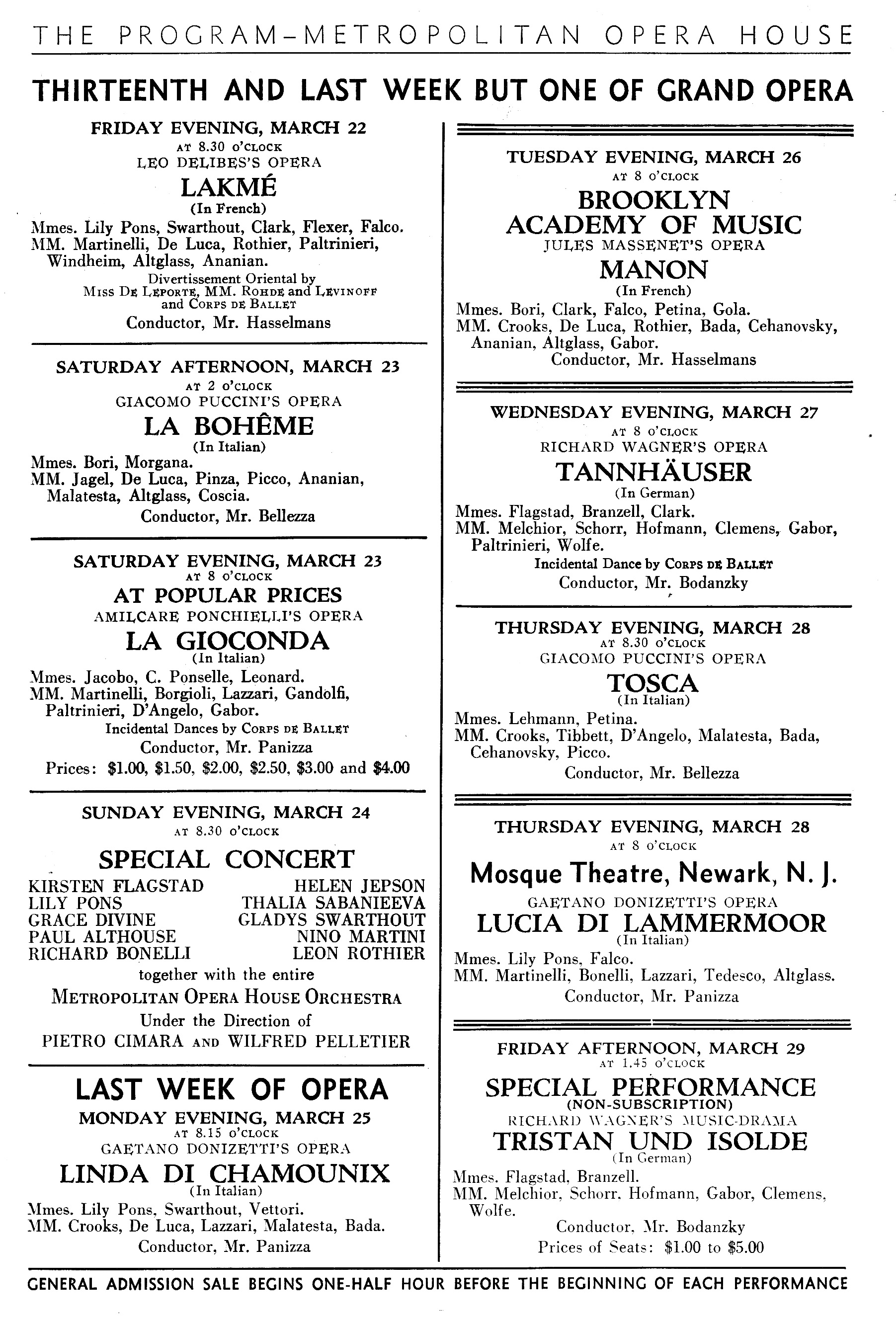 Metropolitan Opera Schedule March 22-29, 1935, the last week of Giulio Gatti-Casazza's 27-year tenure (1908-35) as General Manager of the Met.